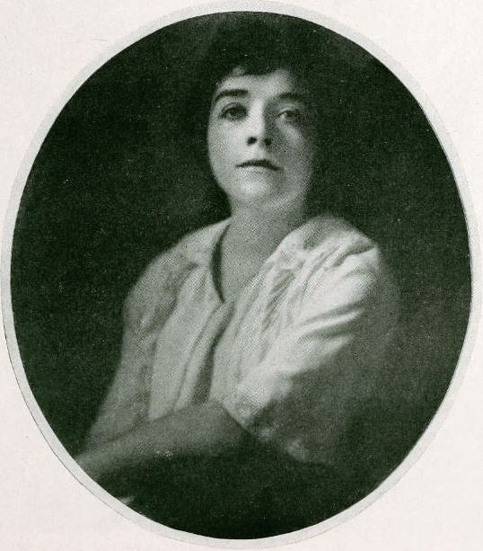 American poet Hazel Hall, on page 41 of the December 1922 Shadowland.